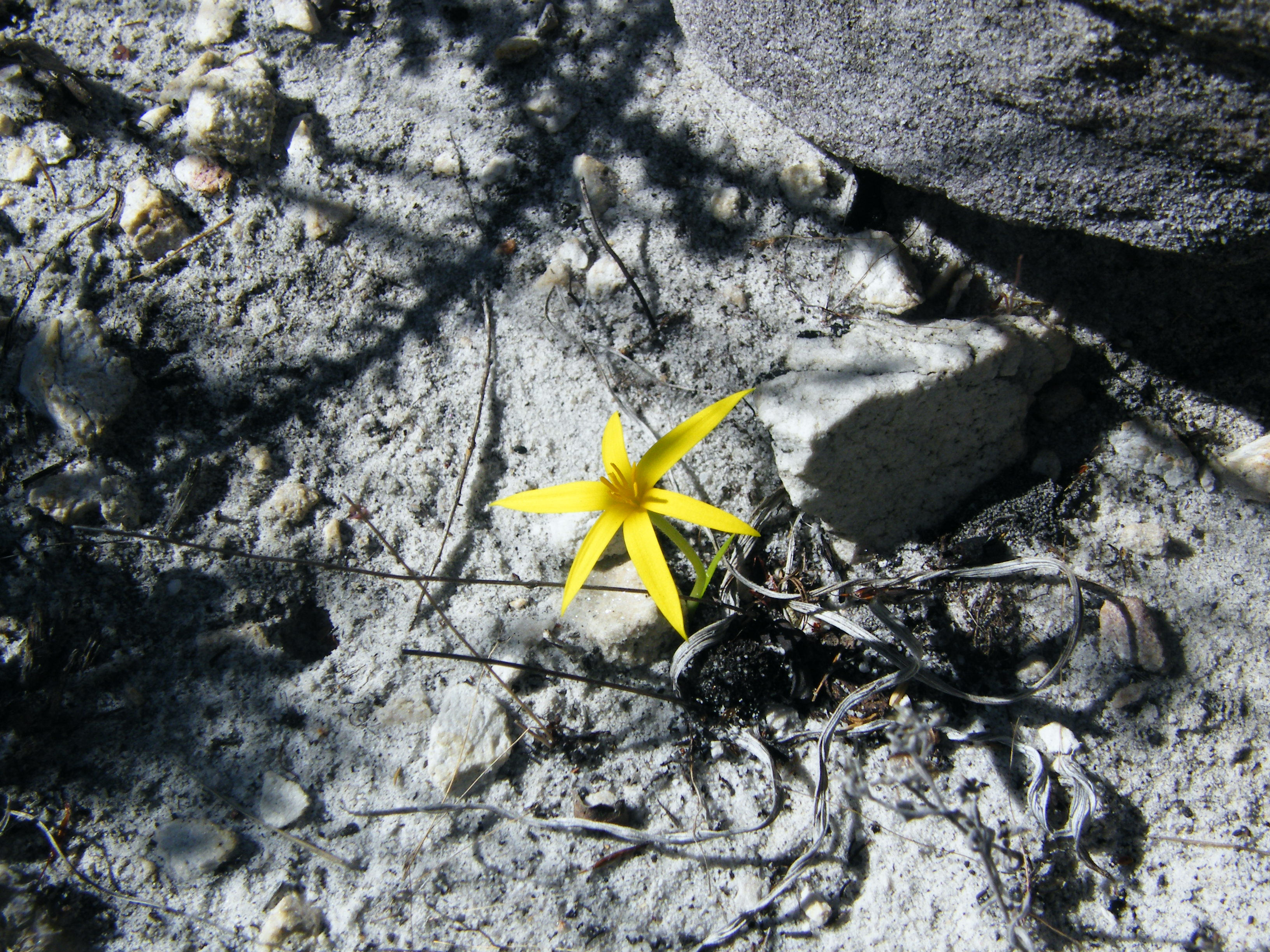 Autumn Star, Red Hill, Cape Town